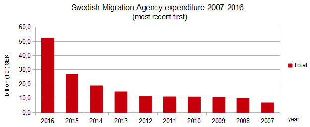 Swedish migration agency expenditure 2007 2016 according to the public records of the Migration Agency.